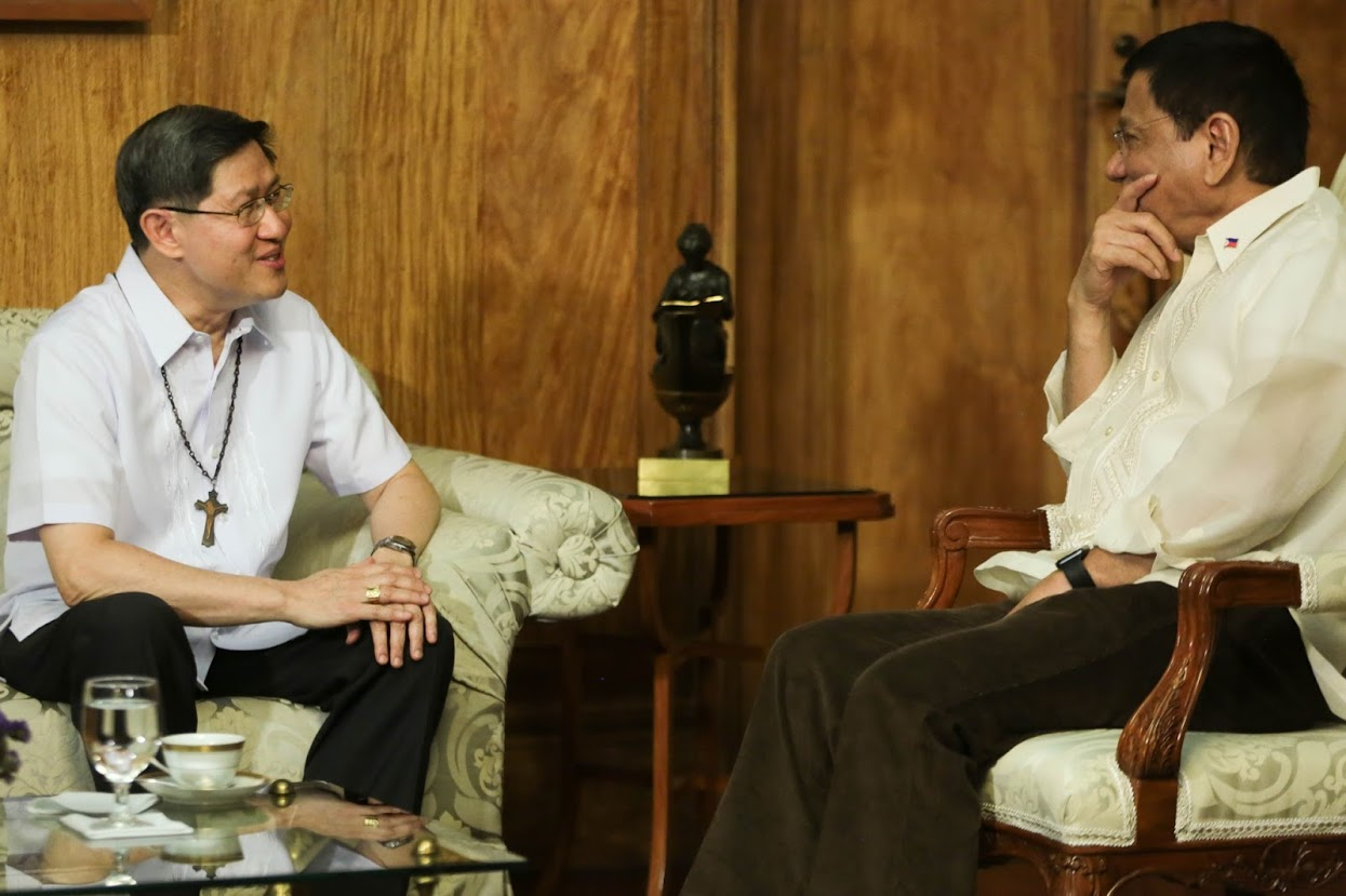 President Rodrigo R. Duterte meets with Luis Antonio Cardinal Tagle at the President’s Study Room in Malacañan Palace on July 19.